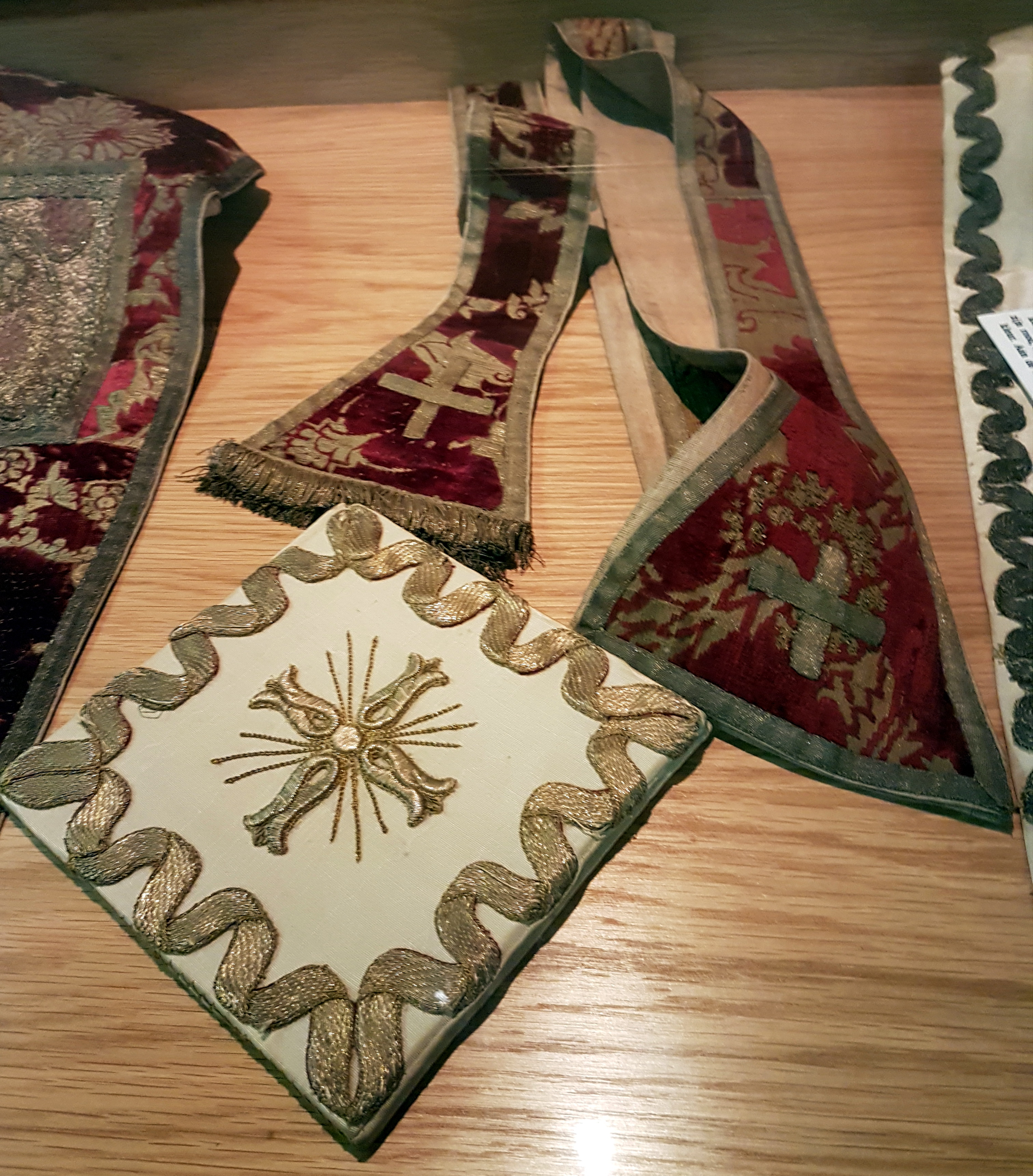 A 17th-century red velvet stole and a 1820s burse in the collection of liturgical vestments in the Treasury of the Basilica of Our lady in Maastricht, Netherlands.